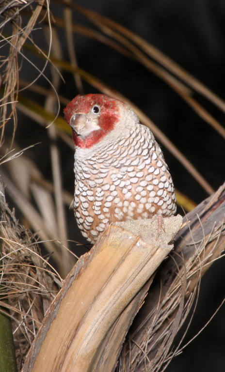 male redheaded finch, a new visitor to the garden today